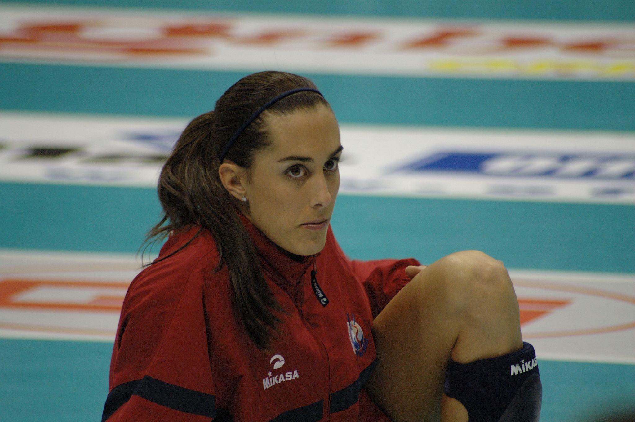 Erin Aldrich, American volleyball player for Jesi